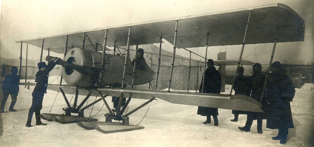 A Porokhovshchikov P-IVbis biplane, Russia, 1920